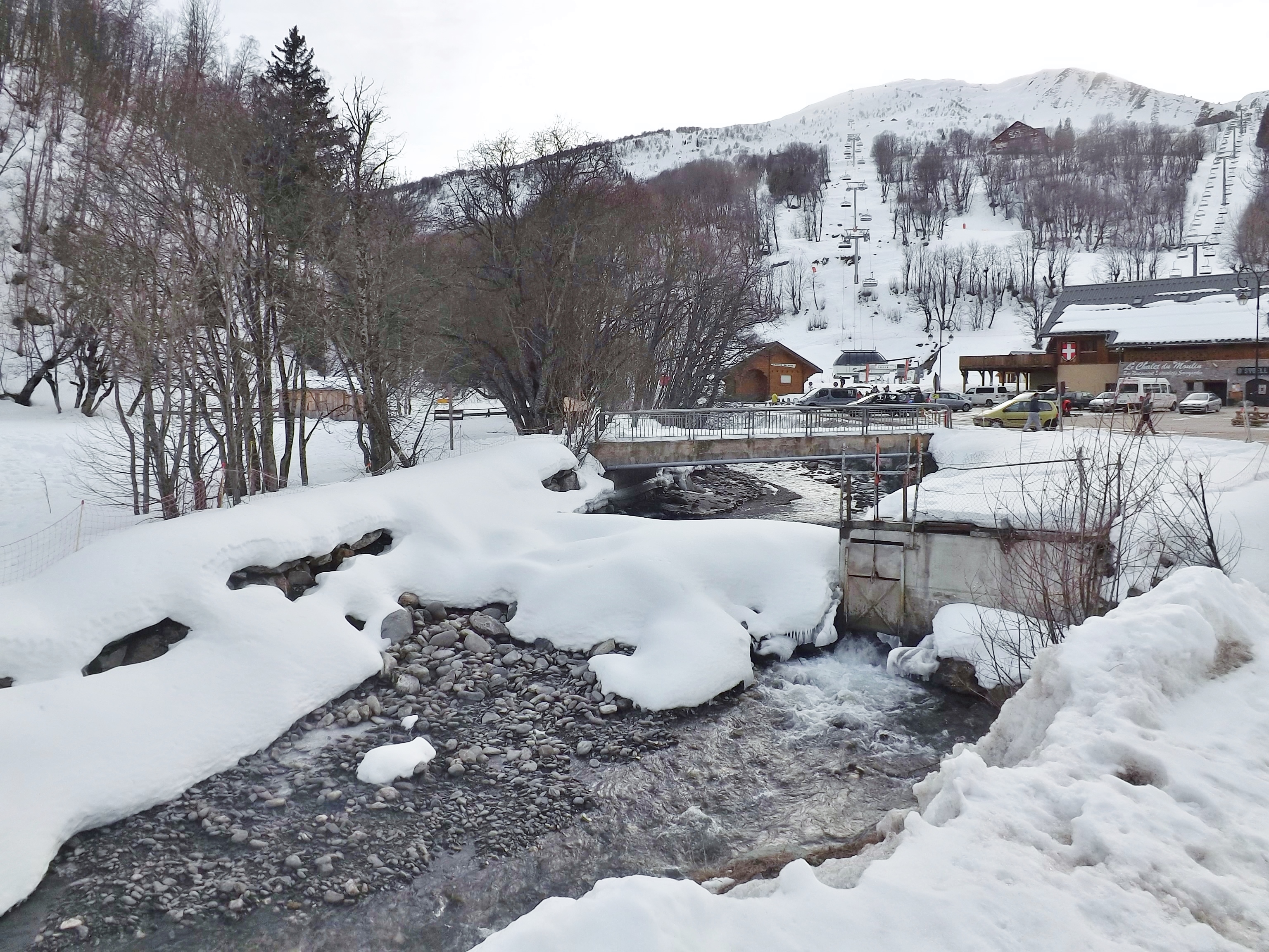 Sight of the Arvan river in Saint-Sorlin-d'Arves ski resort, in Savoie, France.